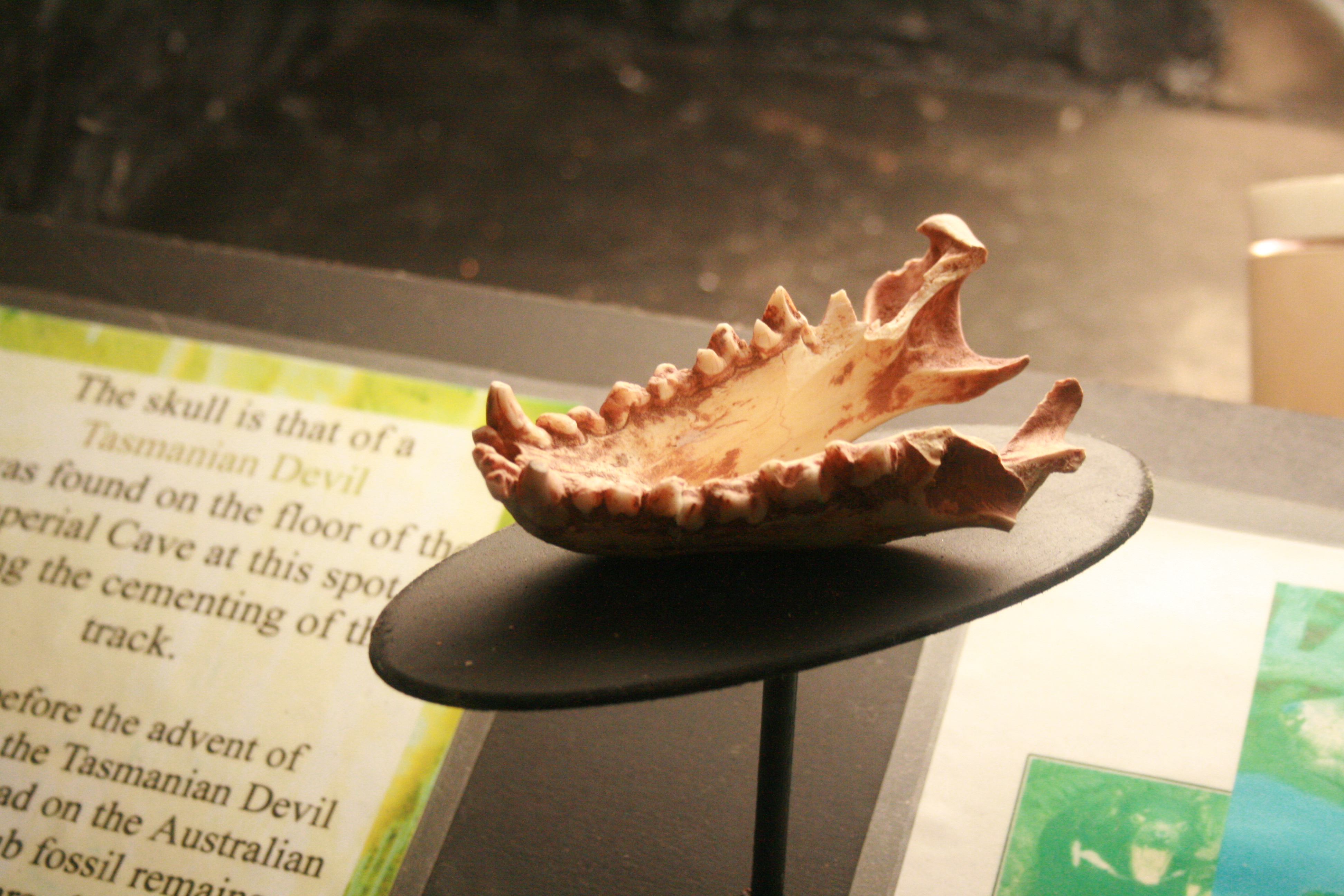 The jawbone of a Tasmanian Devil found in the Imperial Cave at Jenolan Caves, NSW, Australia.